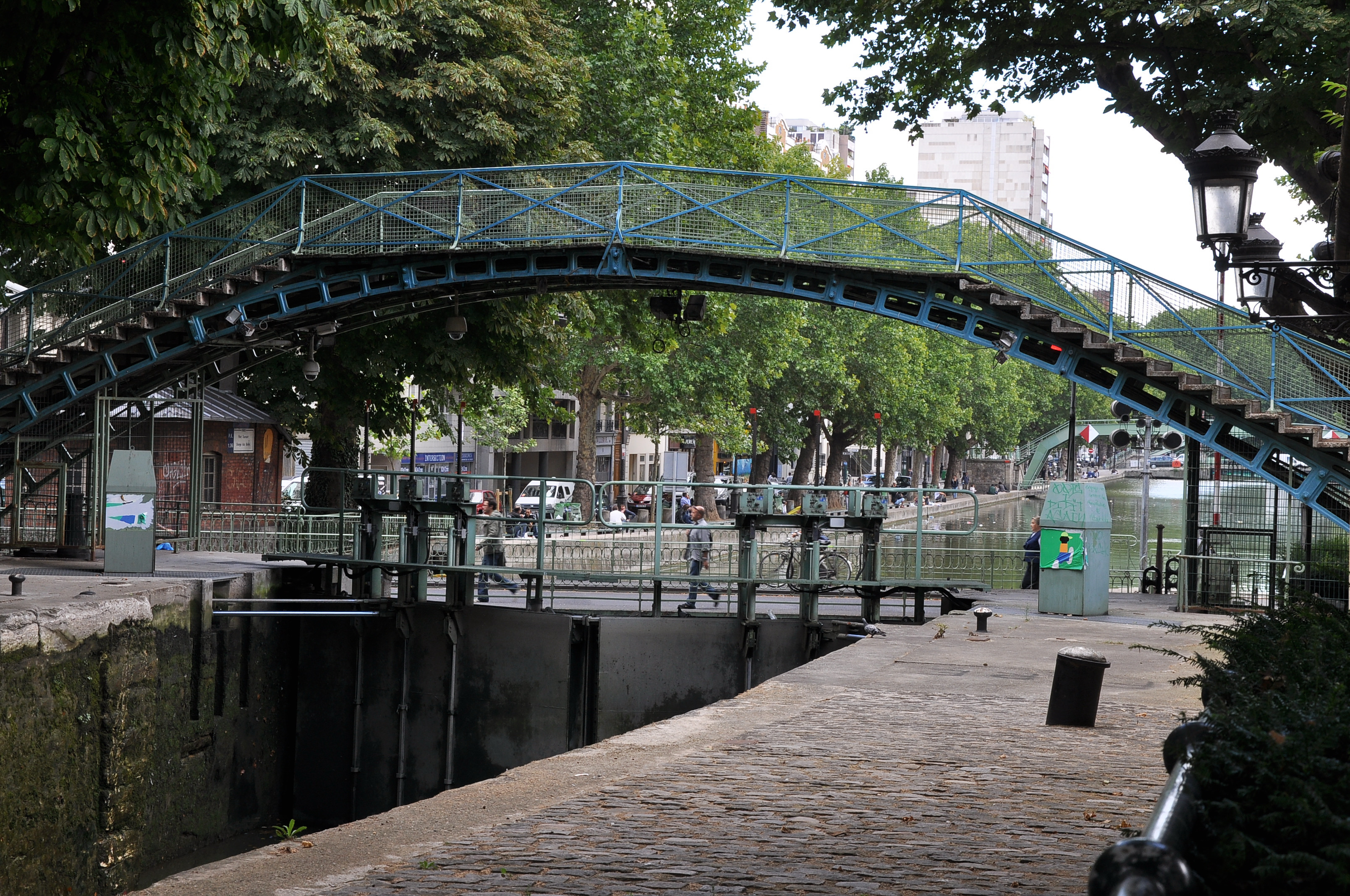 The footbridge of Grange-aux-Belles and the locks of Récollets on the Canal Saint-Martin in Paris 10th district, France.